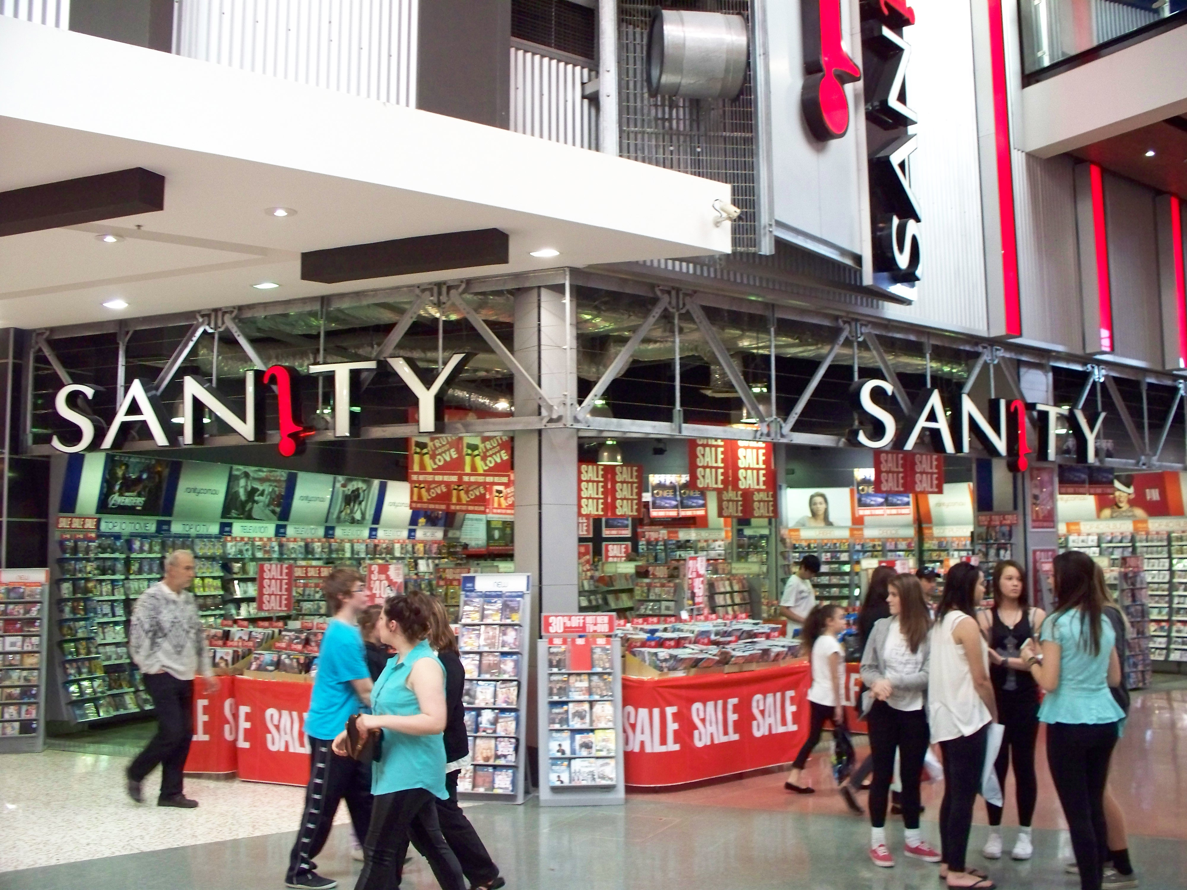 A Sanity outlet within Westfield Fountain Gate, Narre Warren, a south-eastern suburb of Melbourne.